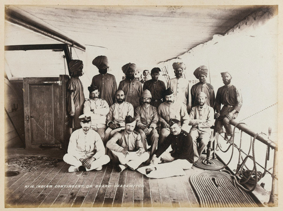 Large numbers of Indian Army troops were shipped from India to Sudan to help defend the few remaining outposts left in Anglo-Egyptian hands after the fall of Khartoum, Kassala and Sennar to Mahdist forces in 1885.